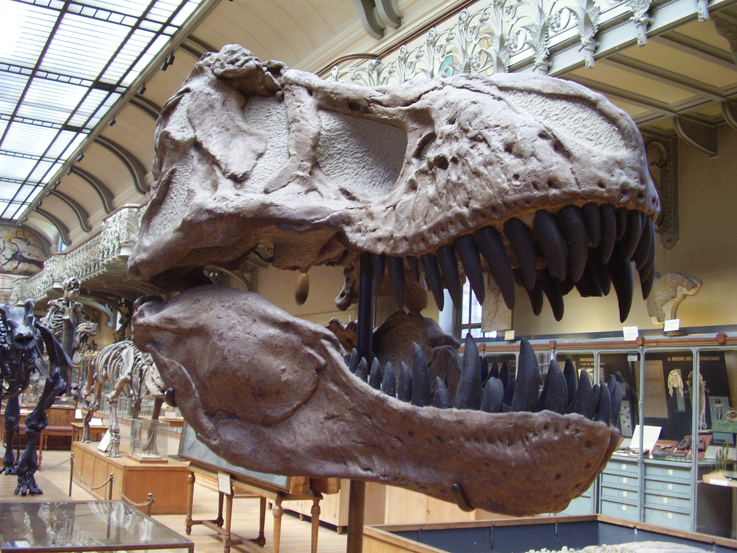 Skull cast of Tyrannosaurus rex in Natural History Museum in Paris.